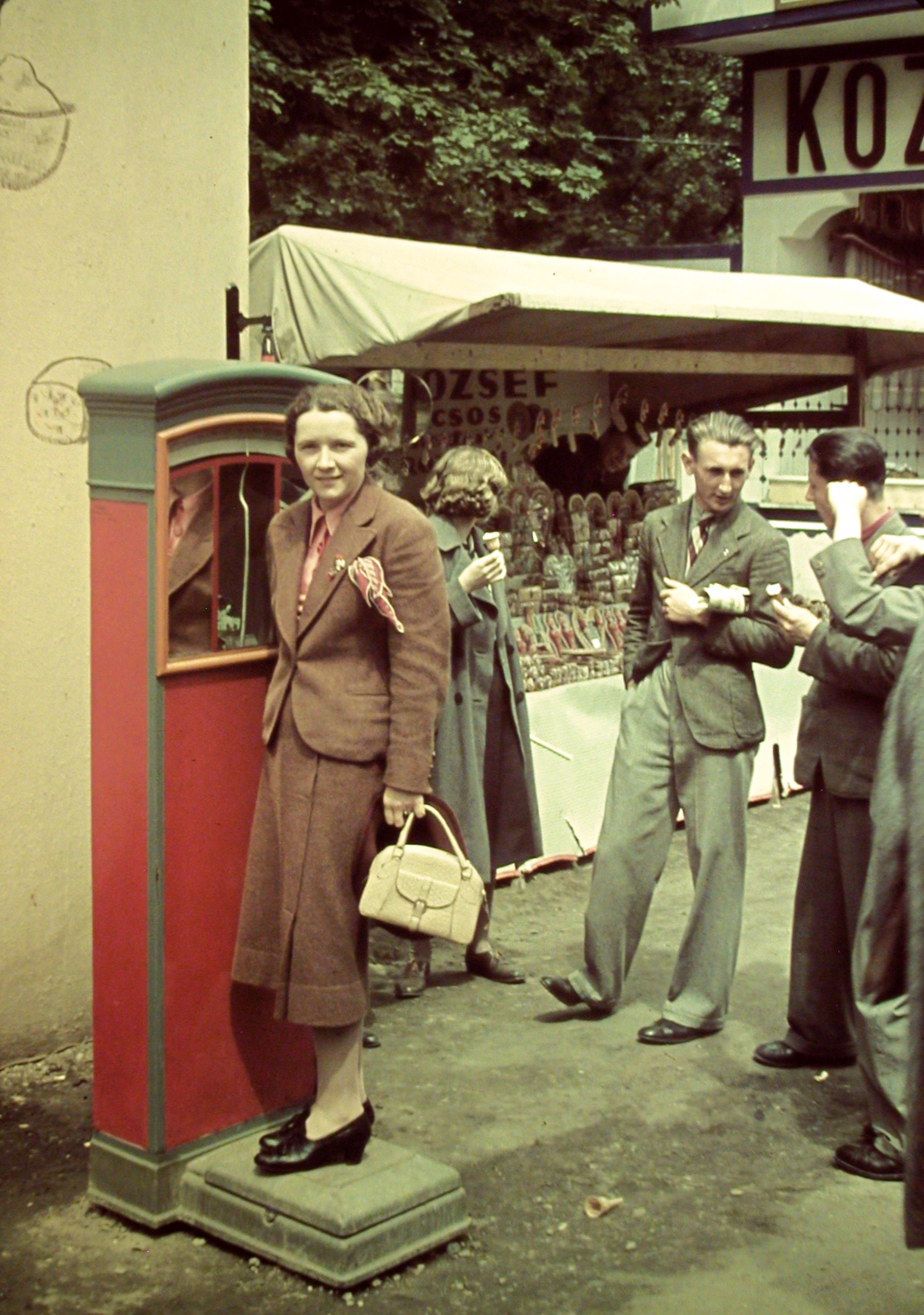 Woman in Hungary 1939. This Agfacolor photo was not colorized. It's invention dated 1936. Life before the Second World War. Location: Hungary, Budapest XIV., City Park Tags: colorful, scale, Budapest